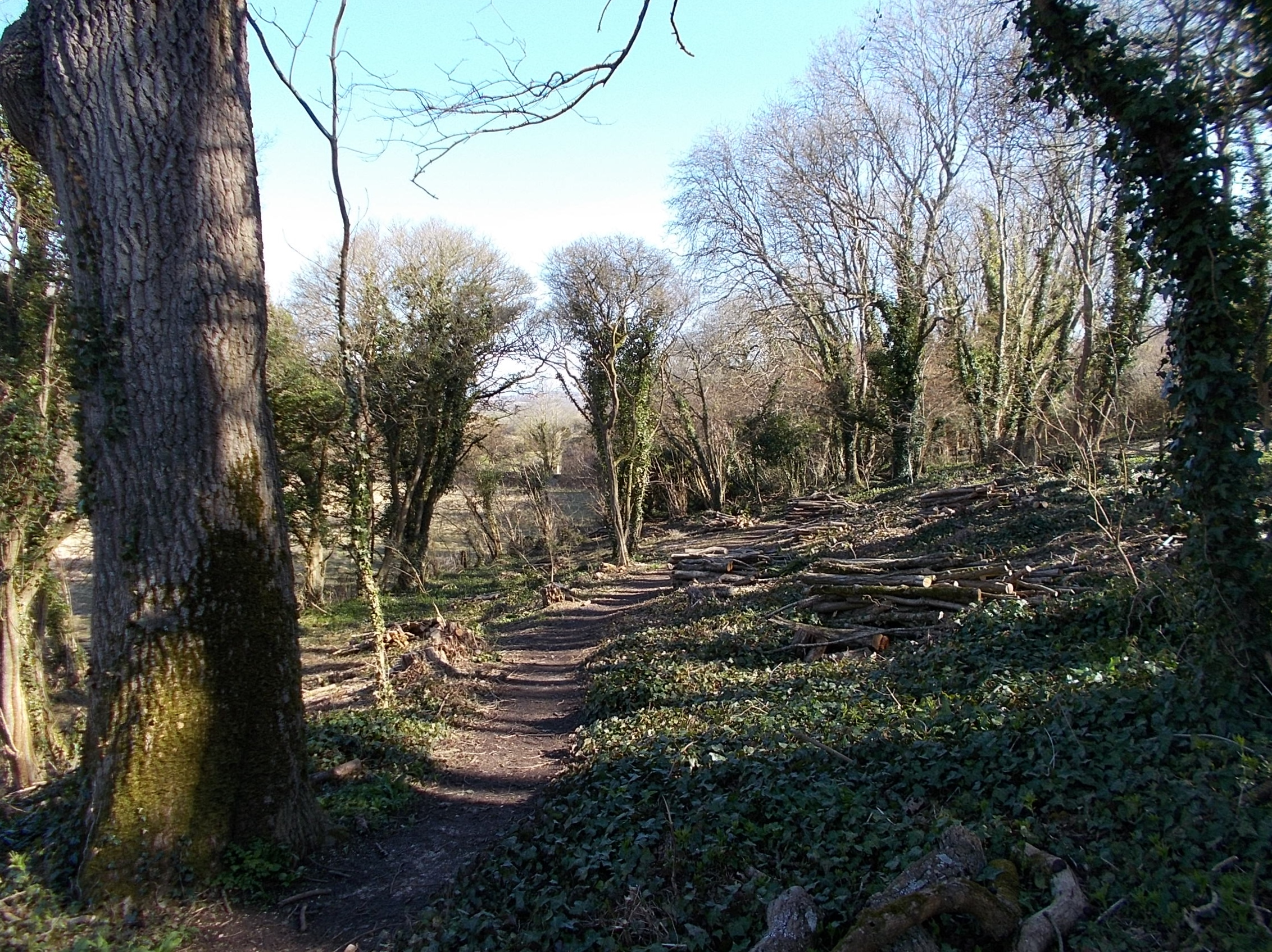 Eaglehead Copse, near Ashey, Isle of Wight, UK